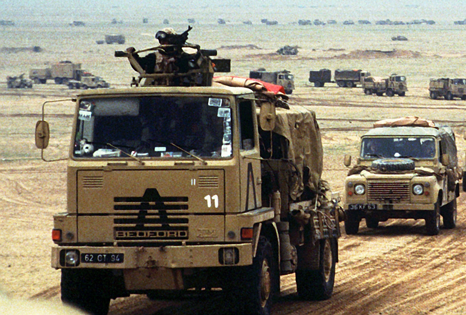 A Bedford Tm 4x4 16,000-pound truck heads a convoy of Land-Rover One Ten 4x4 light vehicles as they move out during Operation Desert Storm. I have cropped the image in order to highlight the Bedford TM. This means the picture becomes more useful for identifying the vehicle even when the picture is reproduced on the edge of a small computer screen. I hope.